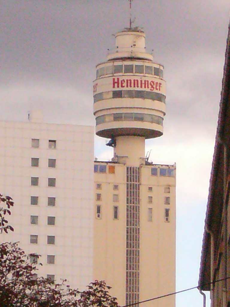 Henninger Tower, taken by Antonio Edward while riding a trolley in Frankfurt, Germany.